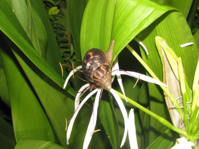 Achatina Fulica, Tezpur, Assam, India